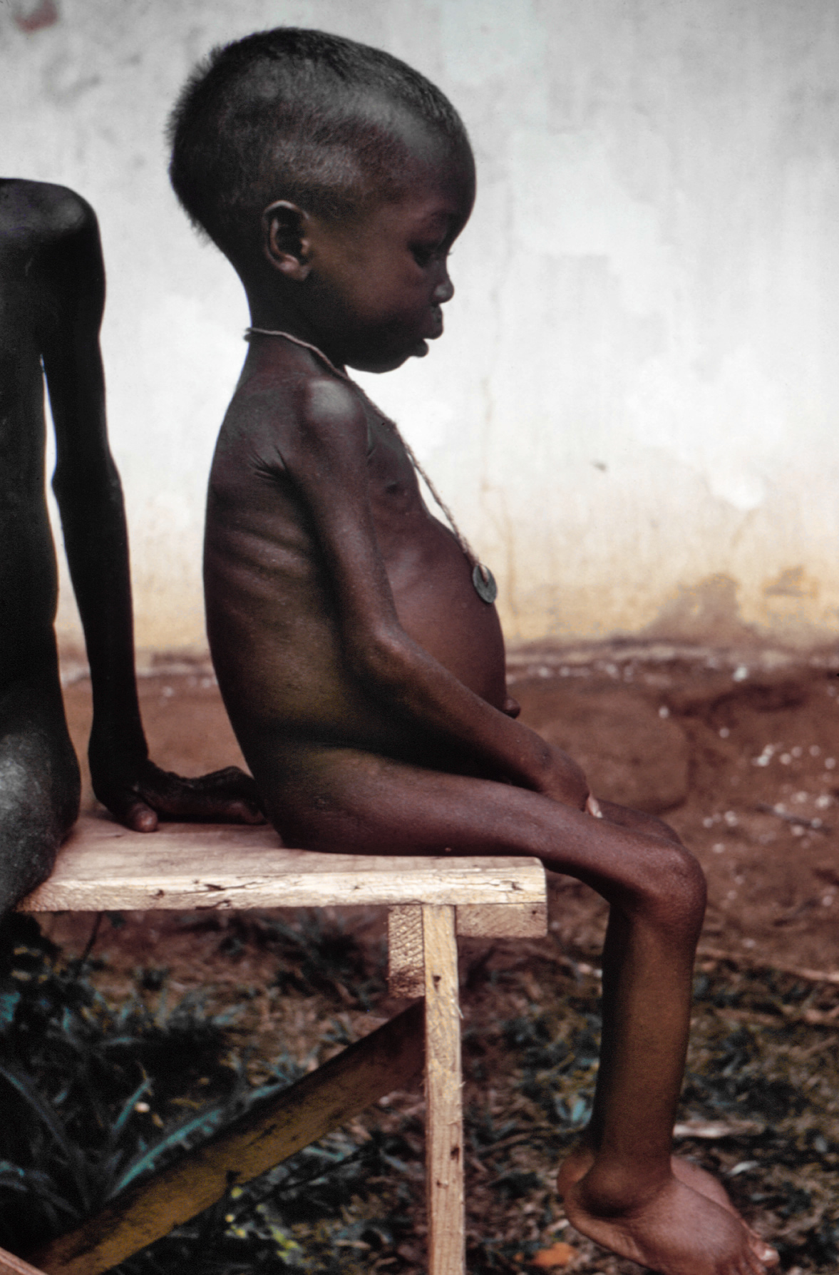 This late 1960s photograph shows a seated, listless child, who was among many kwashiorkor cases found in Nigerian relief camps during the Nigerian–Biafran war. Kwashiorkor is a disease brought on due to a severe dietary protein deficiency, and this child, whose diet fit such a deficiency profile, presented with symptoms including edema of legs and feet, light-colored, thinning hair, anemia, a pot-belly, and shiny skin. A large number of relief camps were established for nutrition assessment and feeding operations for the local villagers around the war zone.